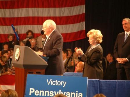 Photo of Dick Cheney at a political rally at Washington & Jefferson College, with Lynne Cheney and Tim Murphy